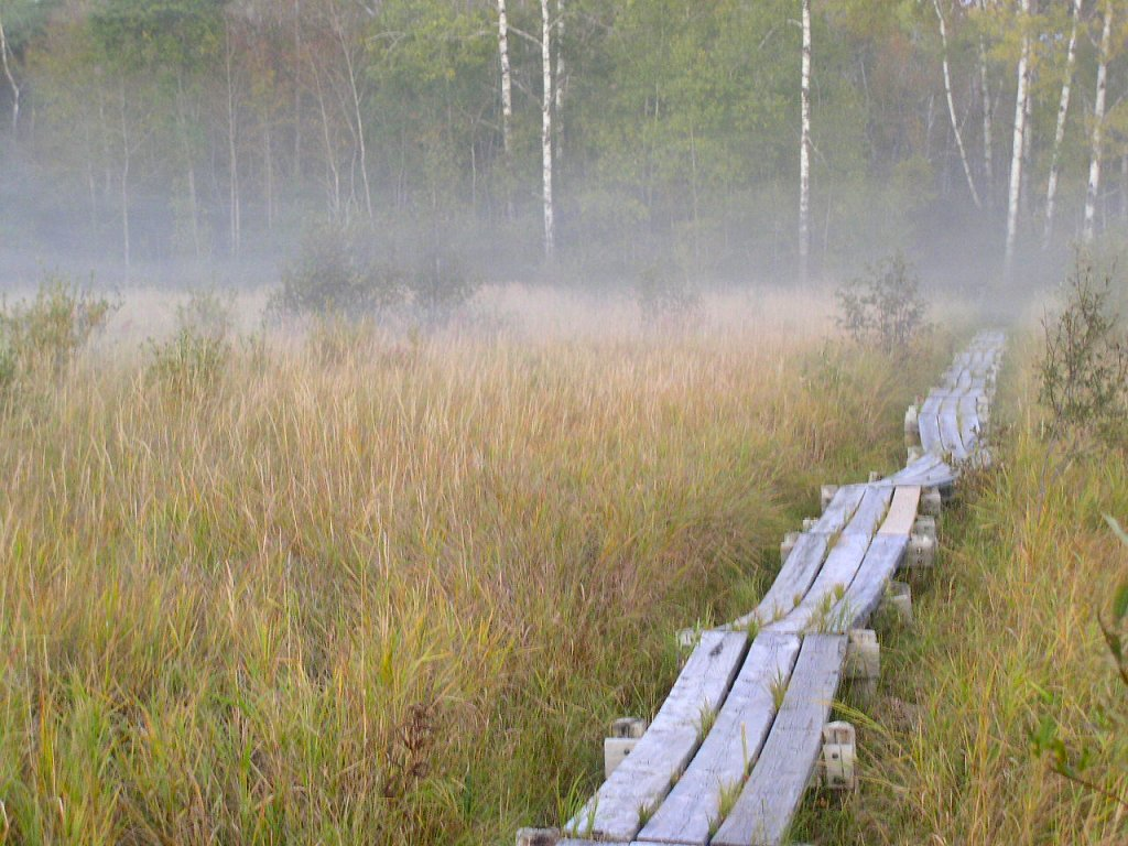 Savanna Portage trail, Savanna Portage State Park, Minnesota, USA